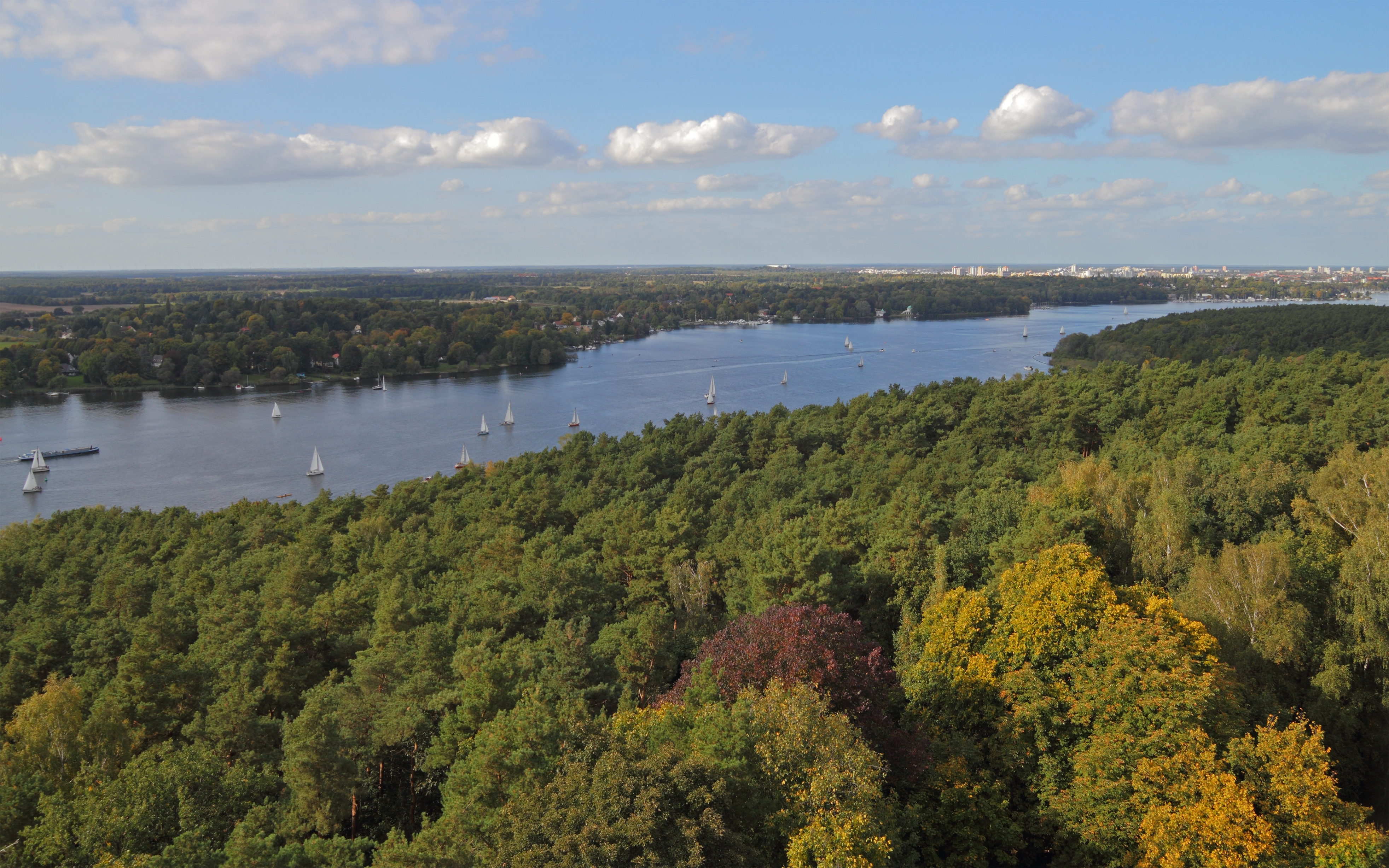 Berlin-Grunewald. View from the Grunewald Tower.